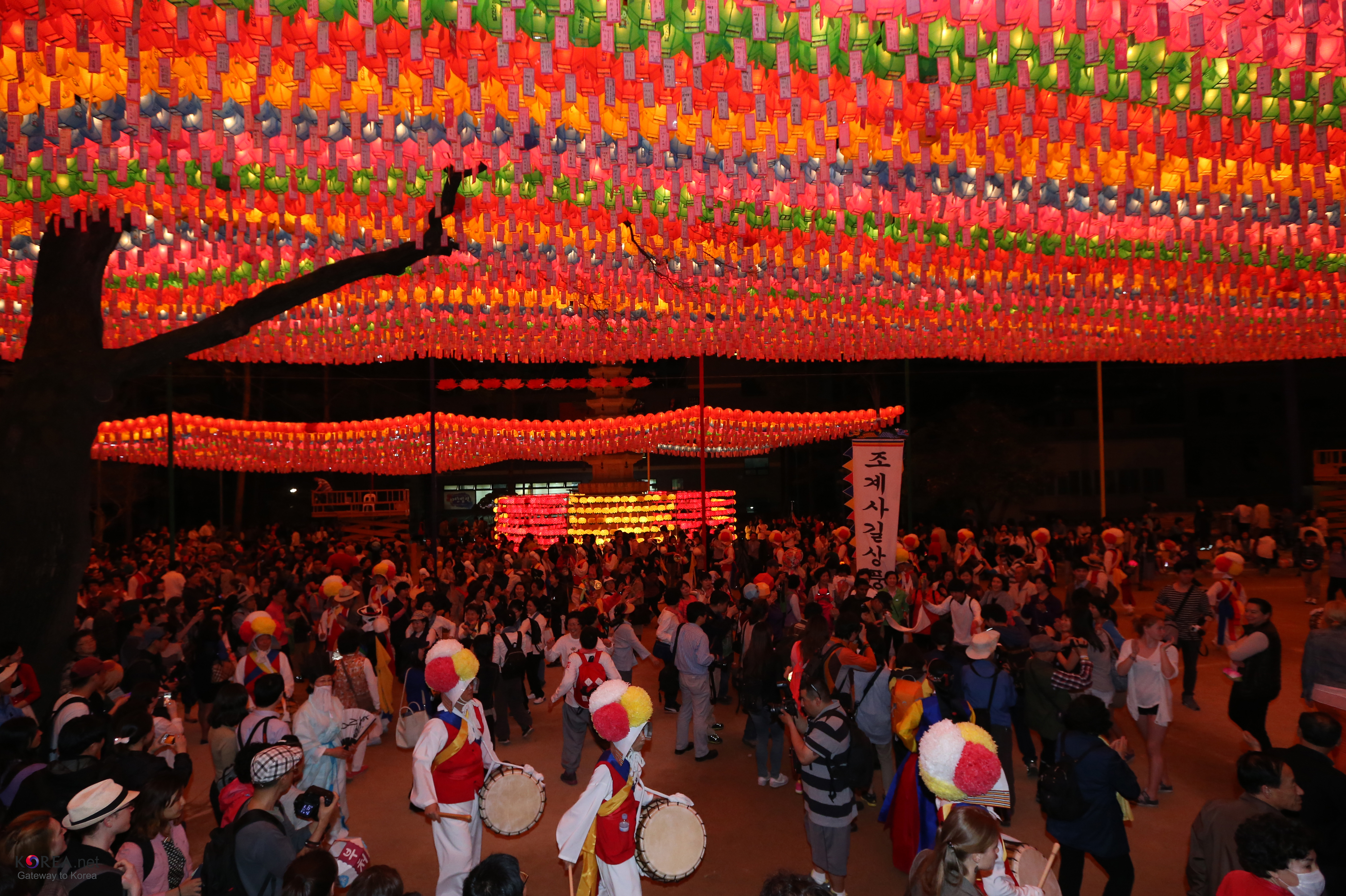 Yeon Deung Hoe (Lotus Lantern Festival) Jongno-gu, Seoul 2013.05.11. -Related Article- "Lotus lanterns light up Seoul night" Ministry of Culture, Sports and Tourism Korean Culture and Information Service Newsroom Jeon Han 연등회 불기2557년 부처님오신 날 맞이 연등회(중요무형문화제 제122호) 조계사 및 종로 일대 문화체육관광부 해외문화홍보원 코리아넷 전한